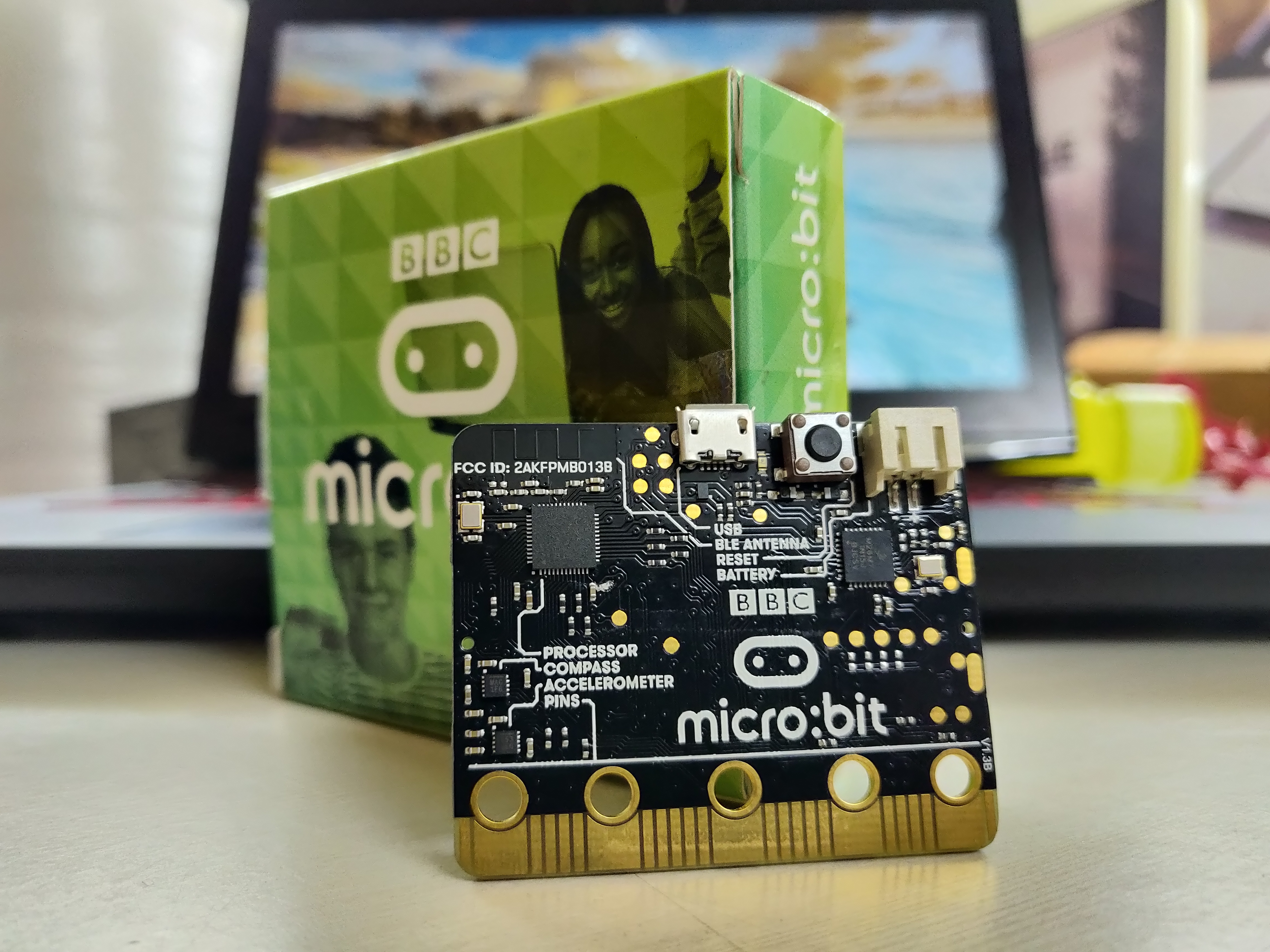 The photo shows BBC Micro Bit with its original packaging behind it.